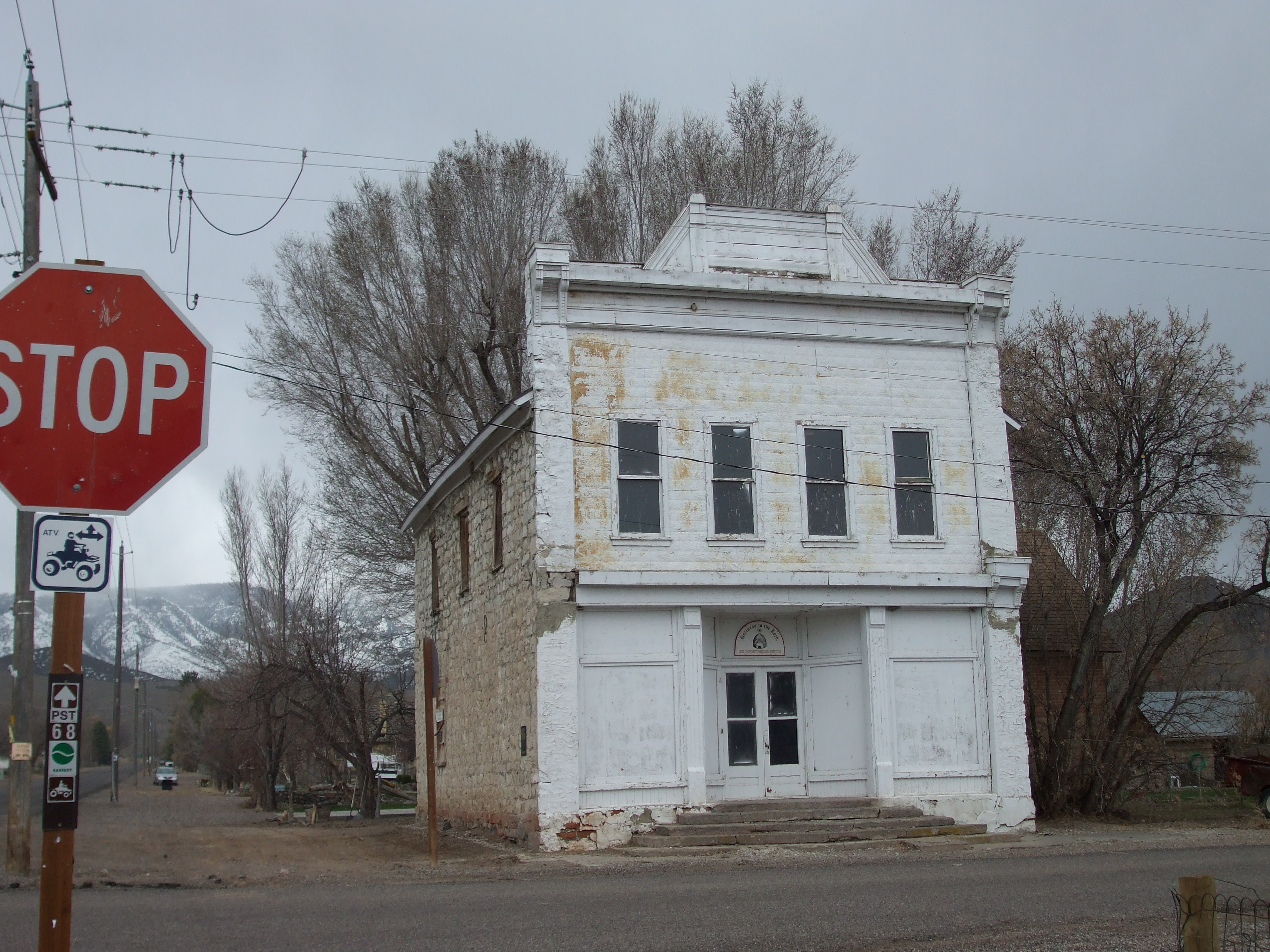 The Glenwood Cooperative Store (ZCMI), a historic building in Glenwood, Utah, United States.